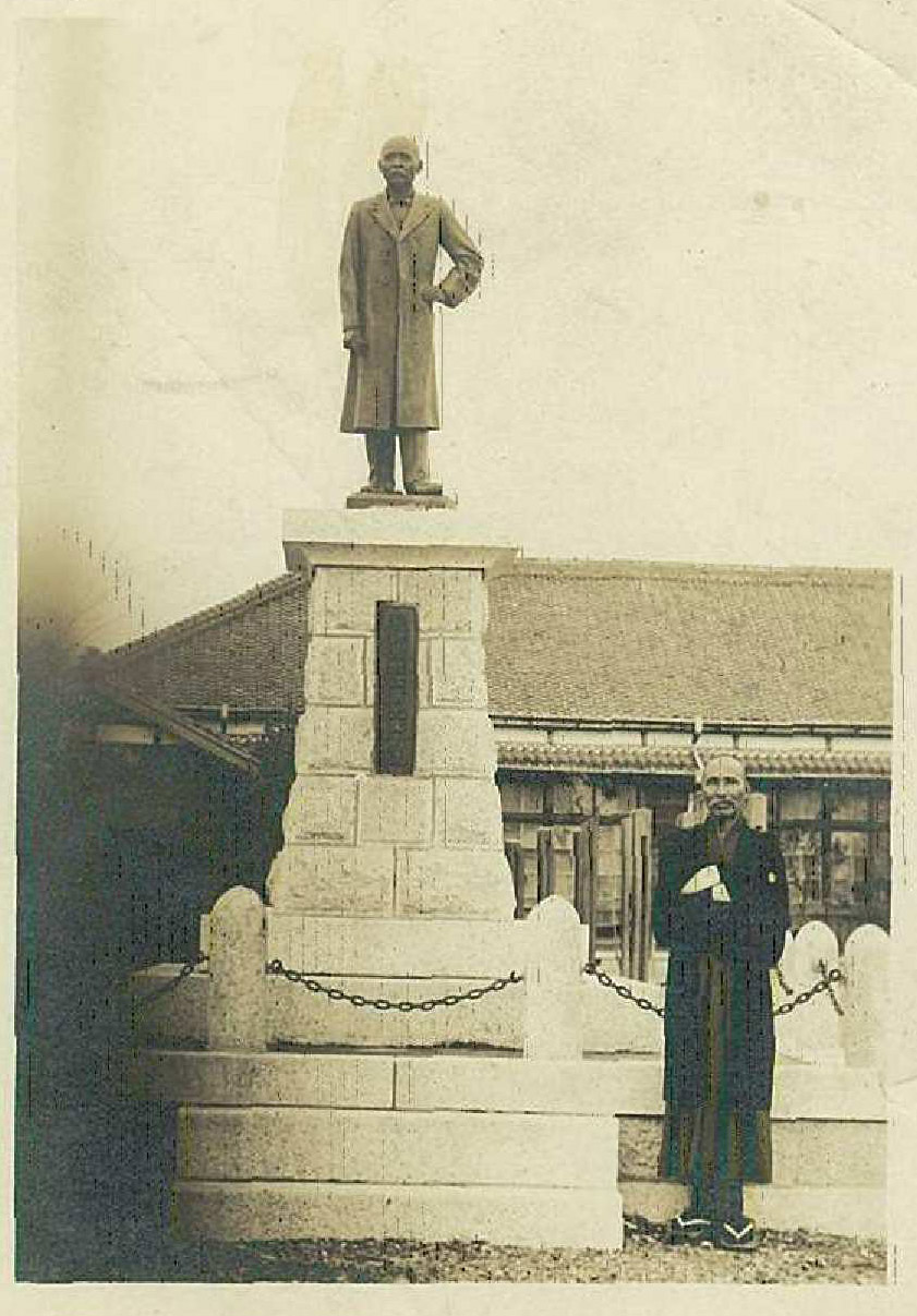 Was taken over a eighty years ago, handed a copy of the portrait at home.